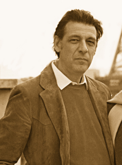 Director Joe Layton in Paris, France 1982